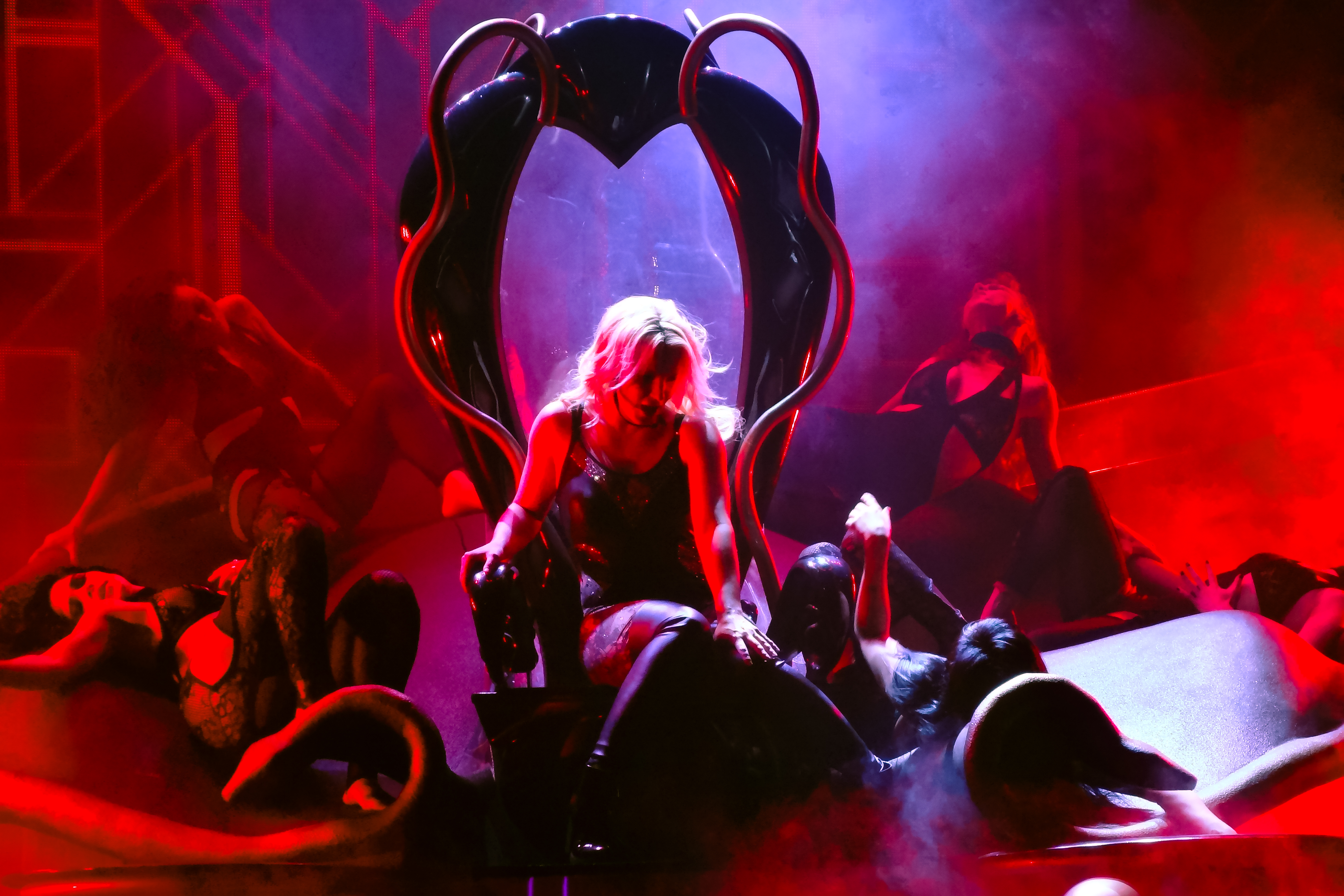 I'm a slave 4 U